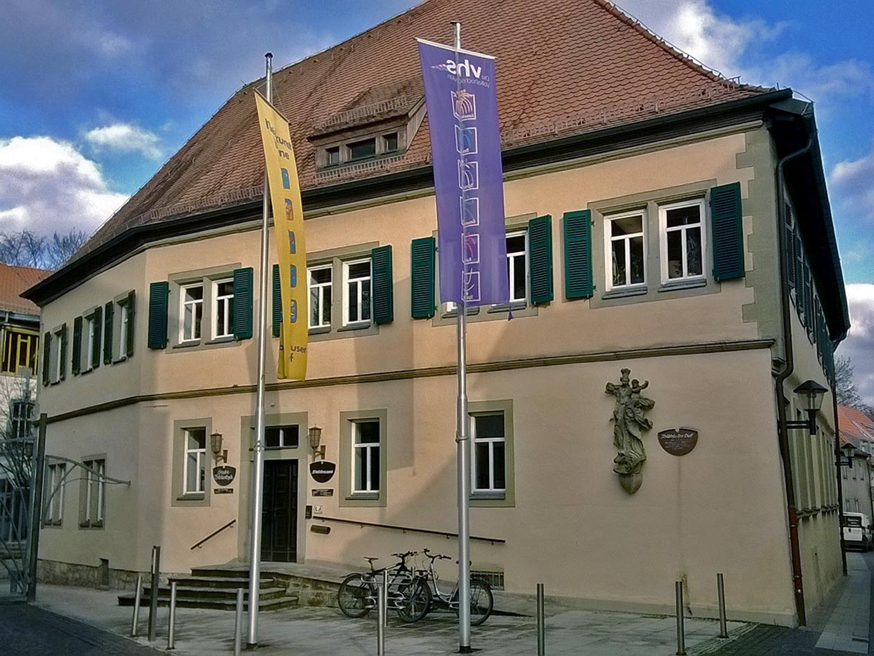 The medieval Bildhaeuser Yard at Bad Neustadt/Saale